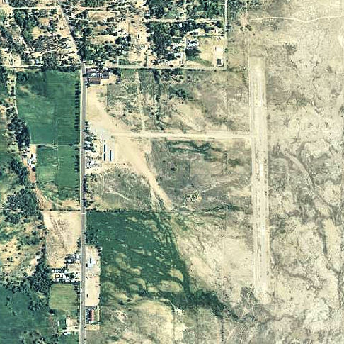 USGS digital orthophoto of Lone Pine Airport in California